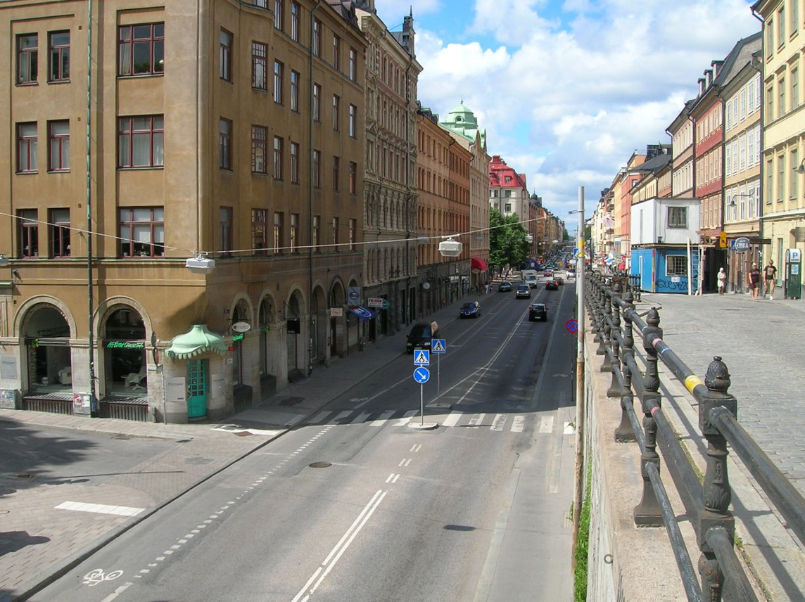 Hornsgatan in Stockholm, Sweden, as seen westward from Hornsgatspuckeln.